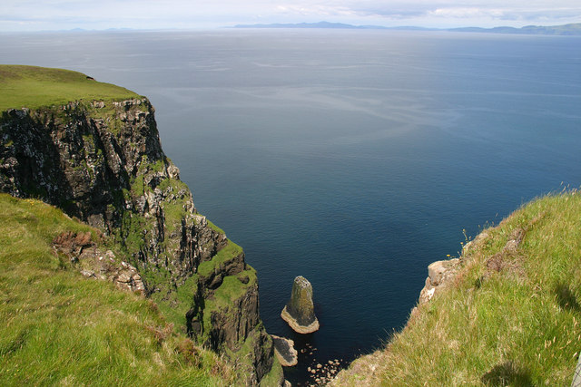 Iorcail, Isle of Canna